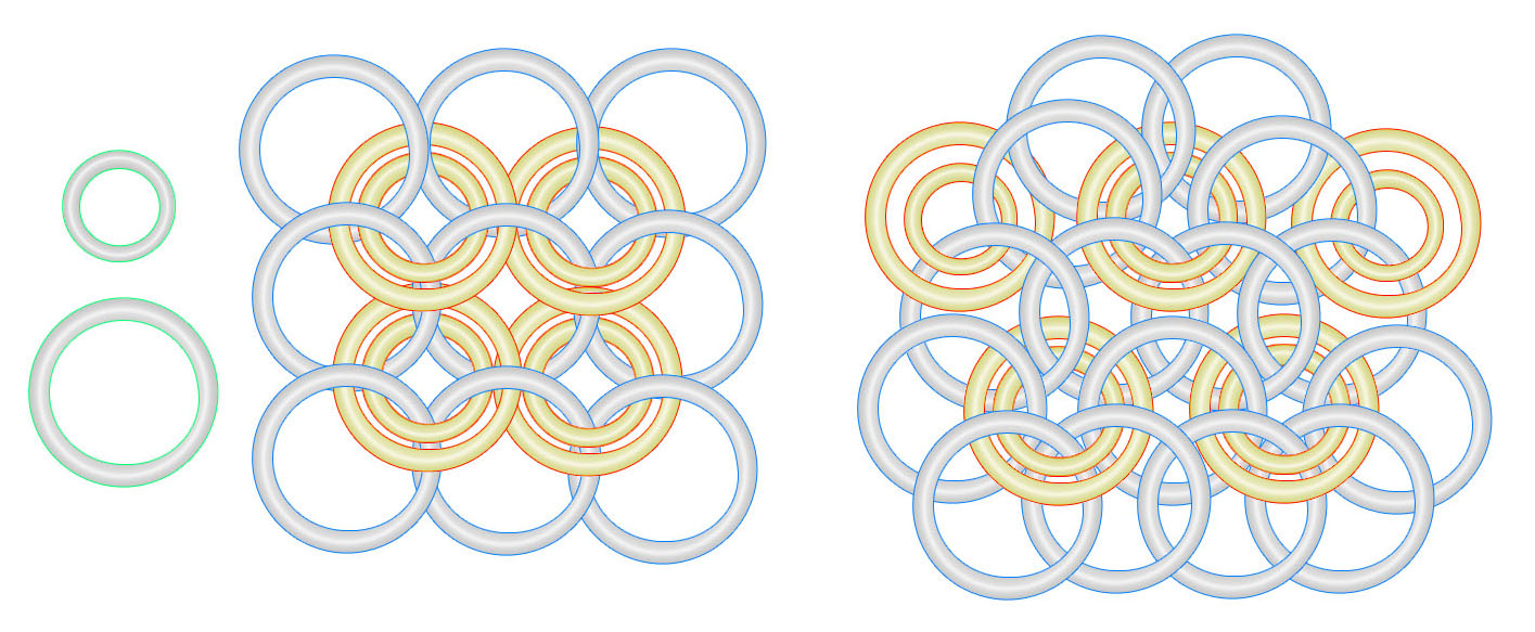 In fact it's not a scale armor at all, it's just "dragon scale" name used for this kind ofchainmail by russian RPG-players, where double rings called as "dargon scales" NB!: it's not a historical armour! (As I found, I need horzionatl, not vertical orienattion for an artcile about scale armor)